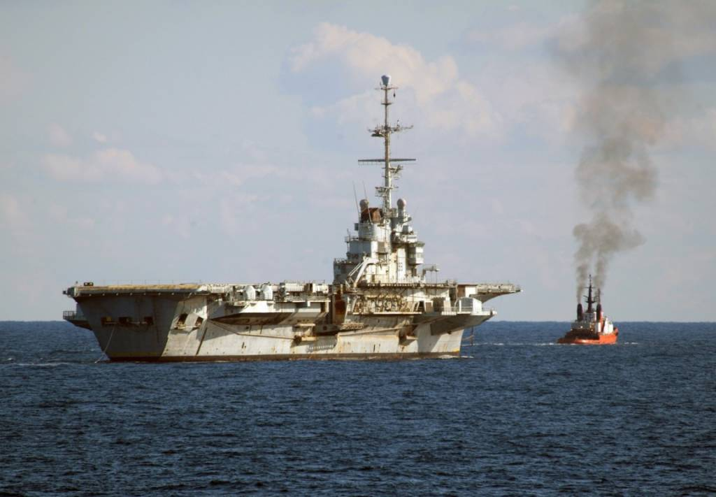 The aircarft carrier Clemenceau leaves Toulon's harbor for Alang's shipbreakers on December 31, 2005.